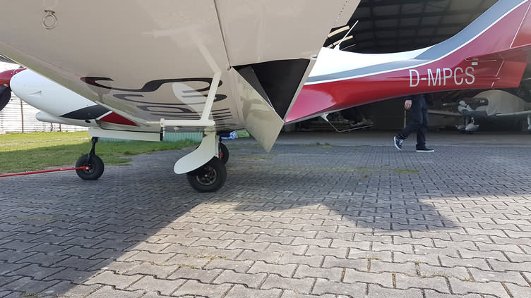 A VL-3 Evolution with fully extended flaps